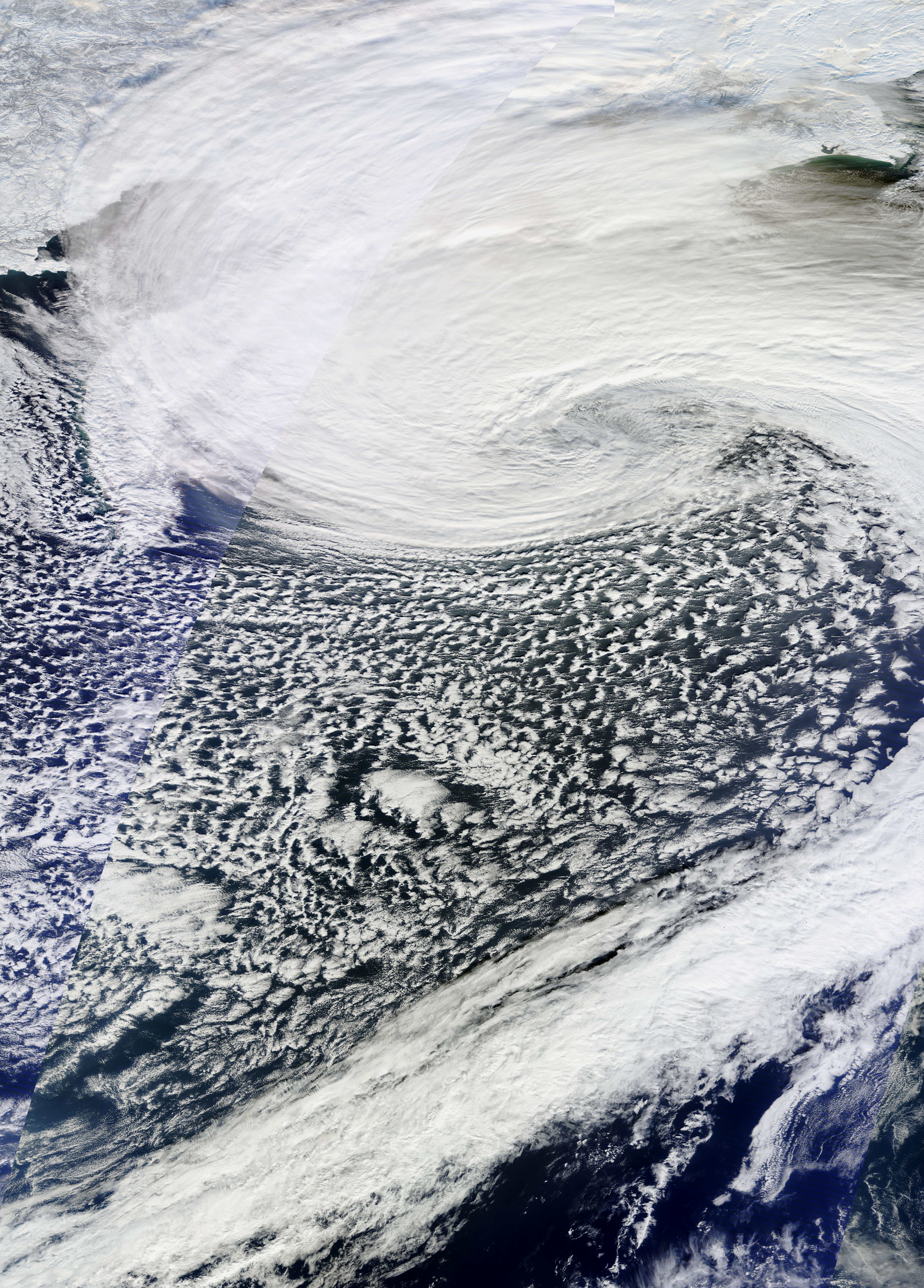 Bering Sea cyclone image taken by the Moderate Resolution Imaging Spectroradiometer onboard NASA's Terra satellite